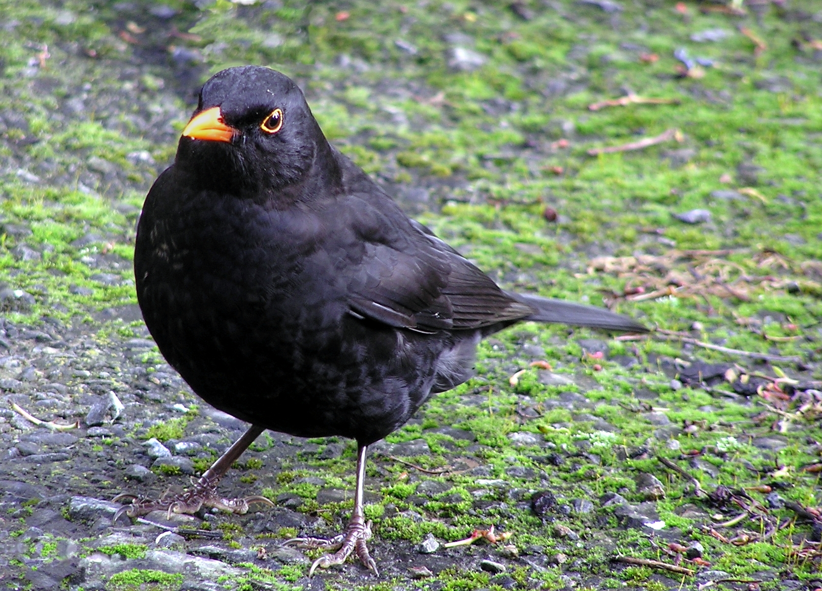 Male blackbird (Turdus merula), Wellington, New Zealand.